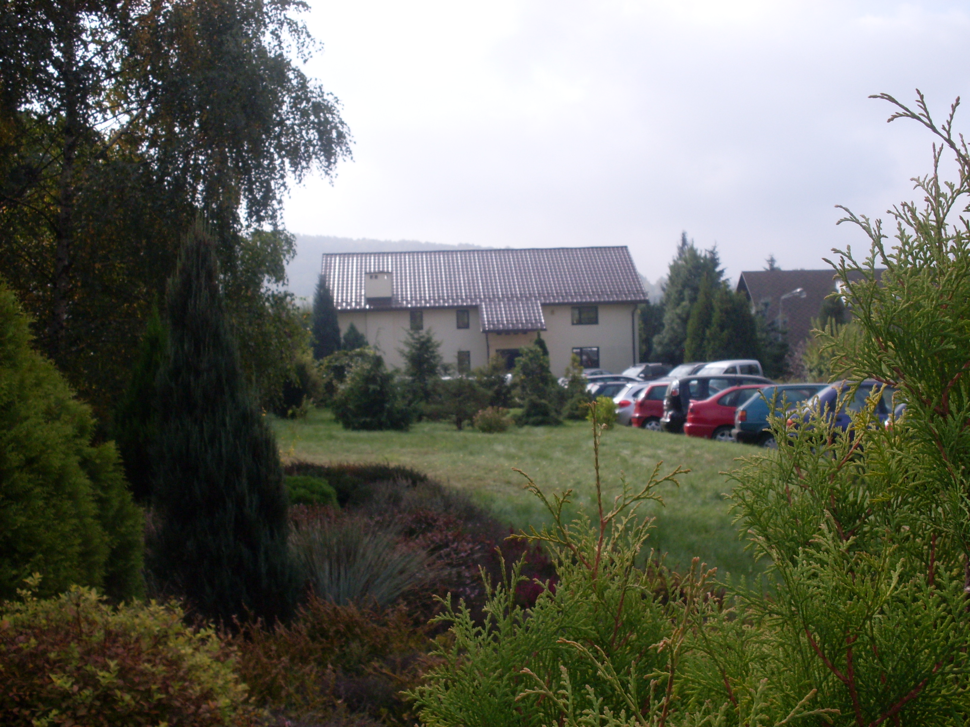 Kingdom Hall Jehovah's Witnesses in Krzeszowice, Poland